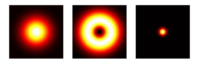 Display of excitation focus (left), de-excitation focus (center) and remaining fluorescence distribution in a STED microscope.